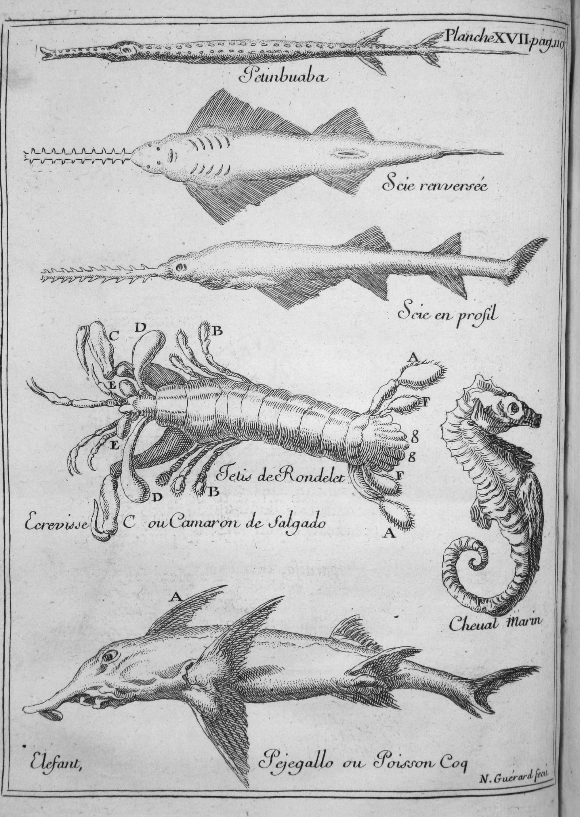 Planche XVII